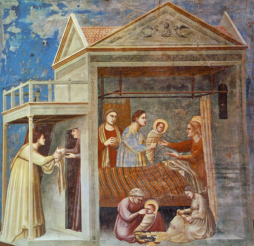 Life of the Virgin